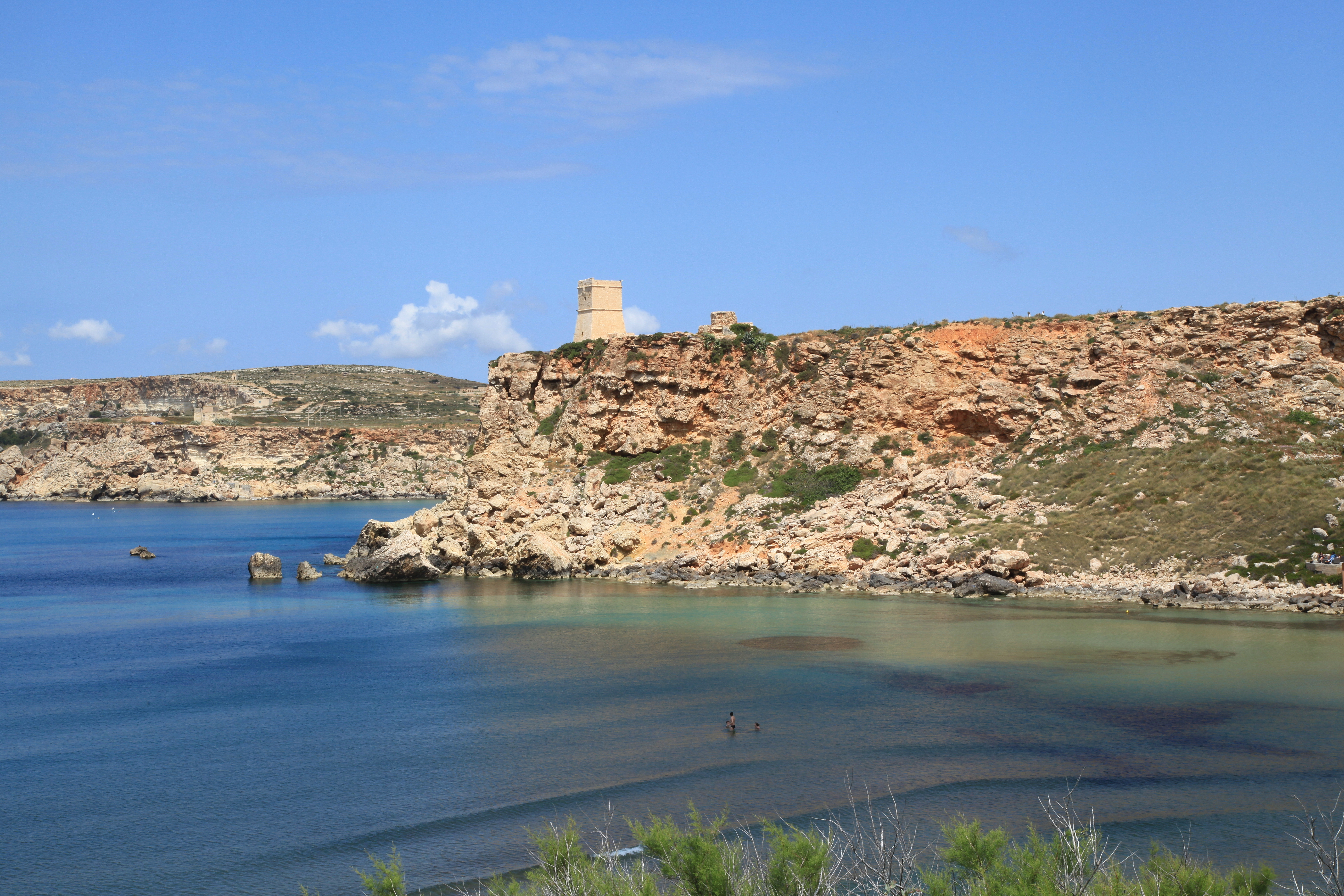 Għajn Tuffieħa Tower in the Għajn Tuffieħa nature reserve in Mġarr, Malta